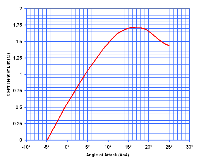 Lift Curve of SM701 airfoil showing the relationship between angle of attack and lift coefficient